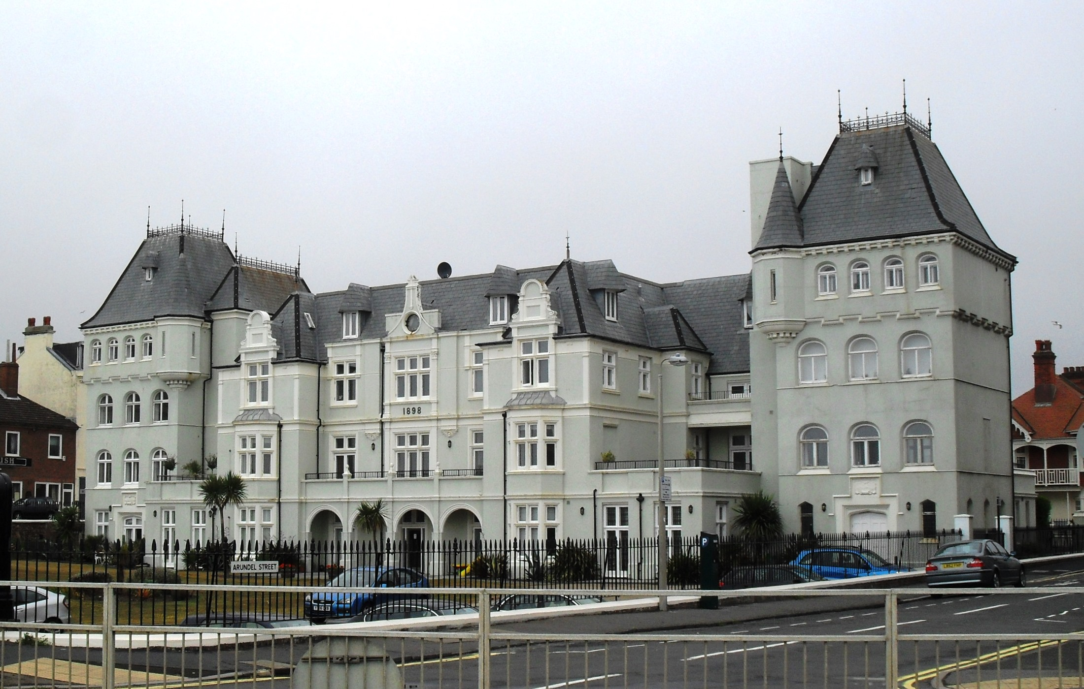 Former French Convalescent Home, De Courcel Road, Brighton, City of Brighton and Hove, England. A convalescent home built on behalf of the French Government for patients from the French Hospital in London. Built in 1898; restored in 2000 as a residential development ("The French Apartments") after its closure. Listed at Grade II by English Heritage (NHLE Code 1380152)